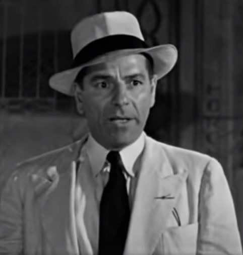 Alexis Minotis in The Chase - cropped screenshot